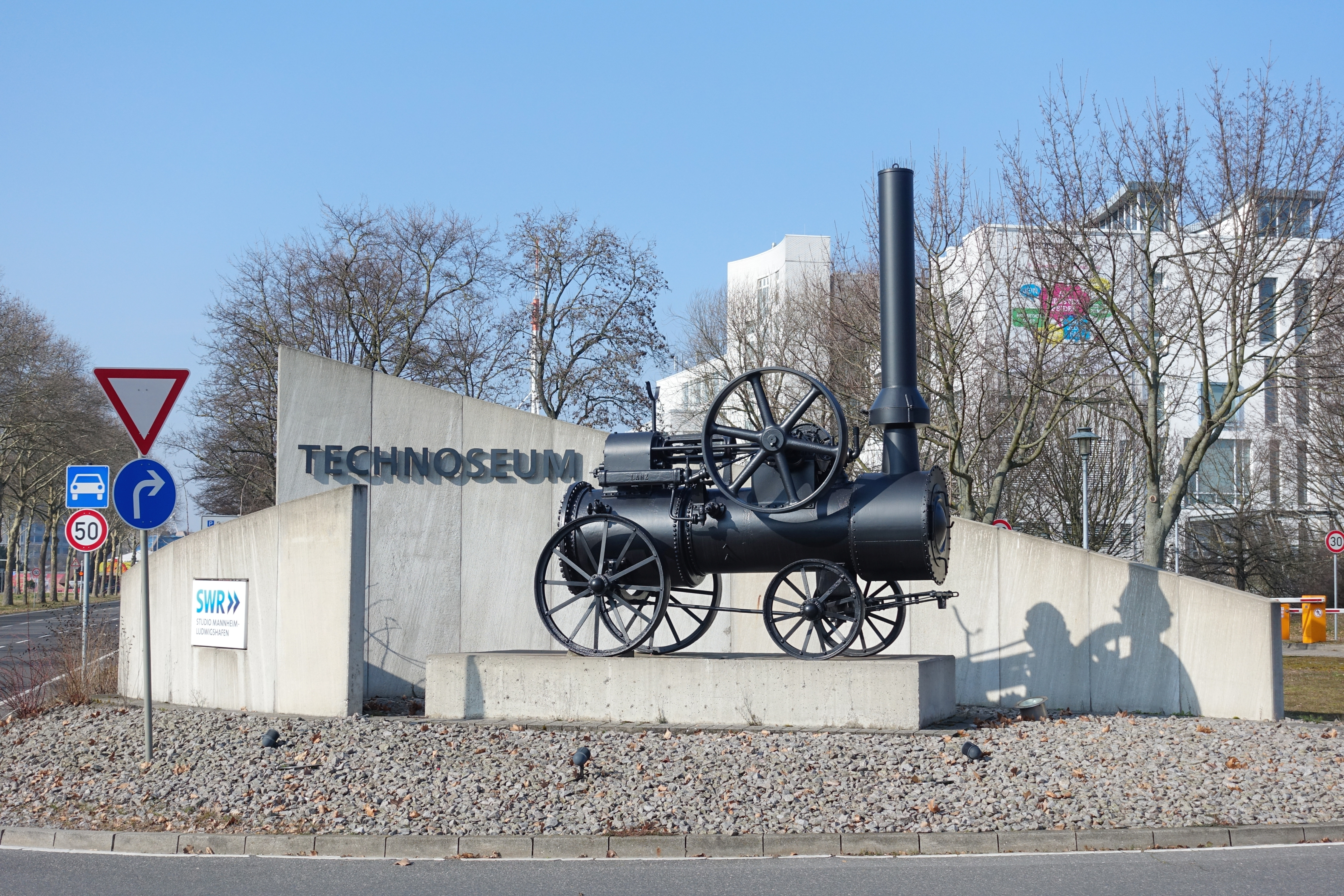 LANZ portable steam engine, Technoseum (State Museum of Technology and Work), Mannheim, Germany